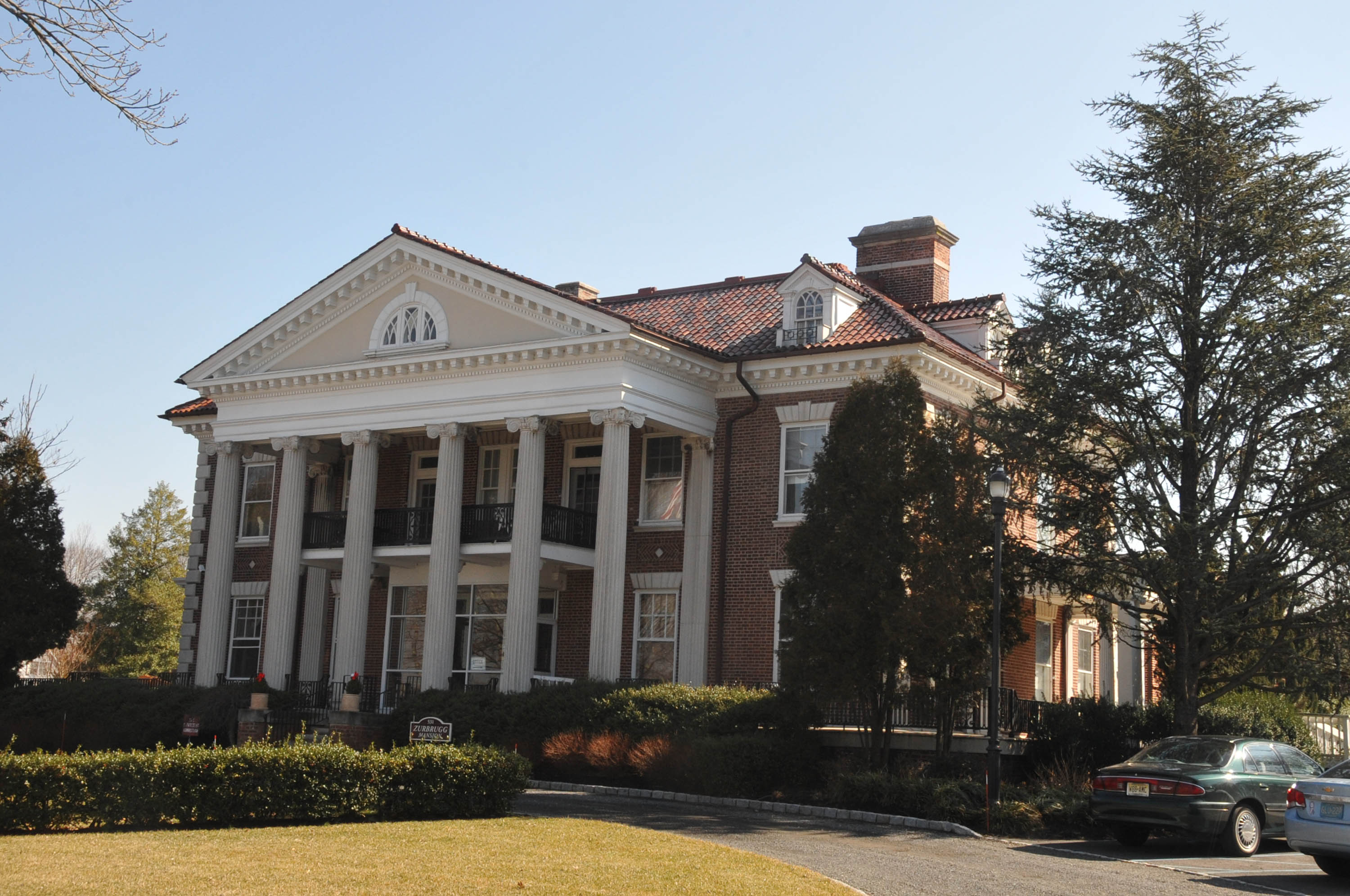 GEORGIAN STYLE MANSION BUILT IN 1910 FOR THEOPHILUS ZURBRUGG, A SWISS INDUSTRIALIST, AND DESIGNED BY PHILADELPHIA ARCHITECT FRANK FURNESS On the NRHP